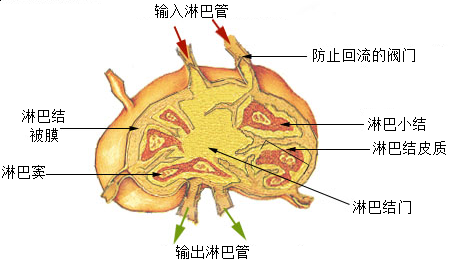 Lymph node